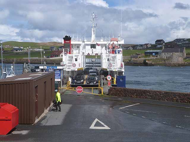 The "Hendra" arrives at Symbister